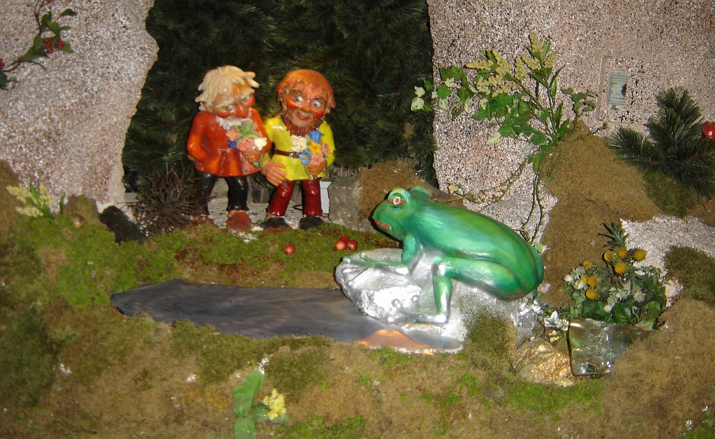 The main attraction of the Grottenbahn are figurines of dwarves enacting various scenes. Some of them are animated.